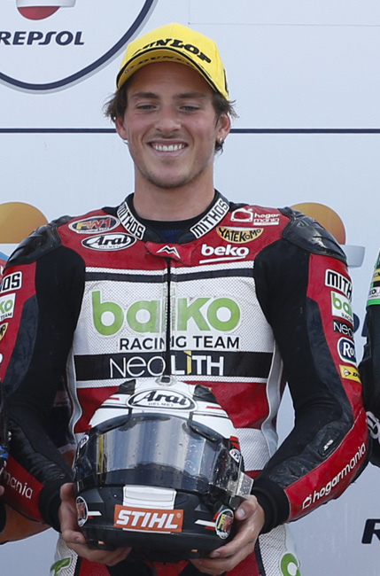 Edgar Pons on the podium of the 2019 CEV Moto2 Valencia II race.